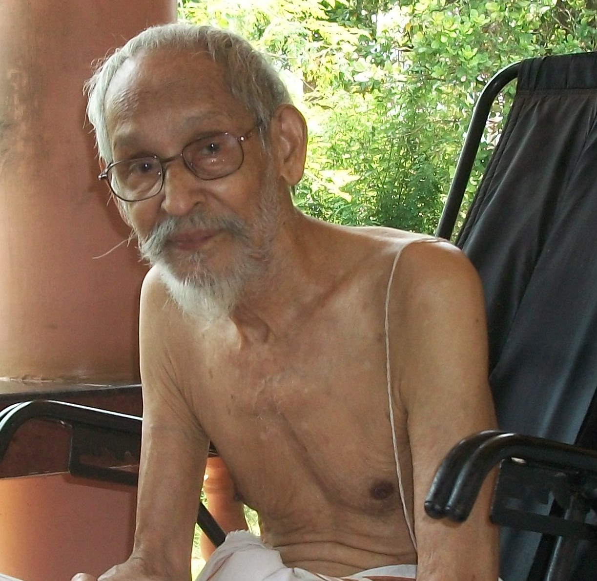 Varikkasery Krishnan Nambuthirippad